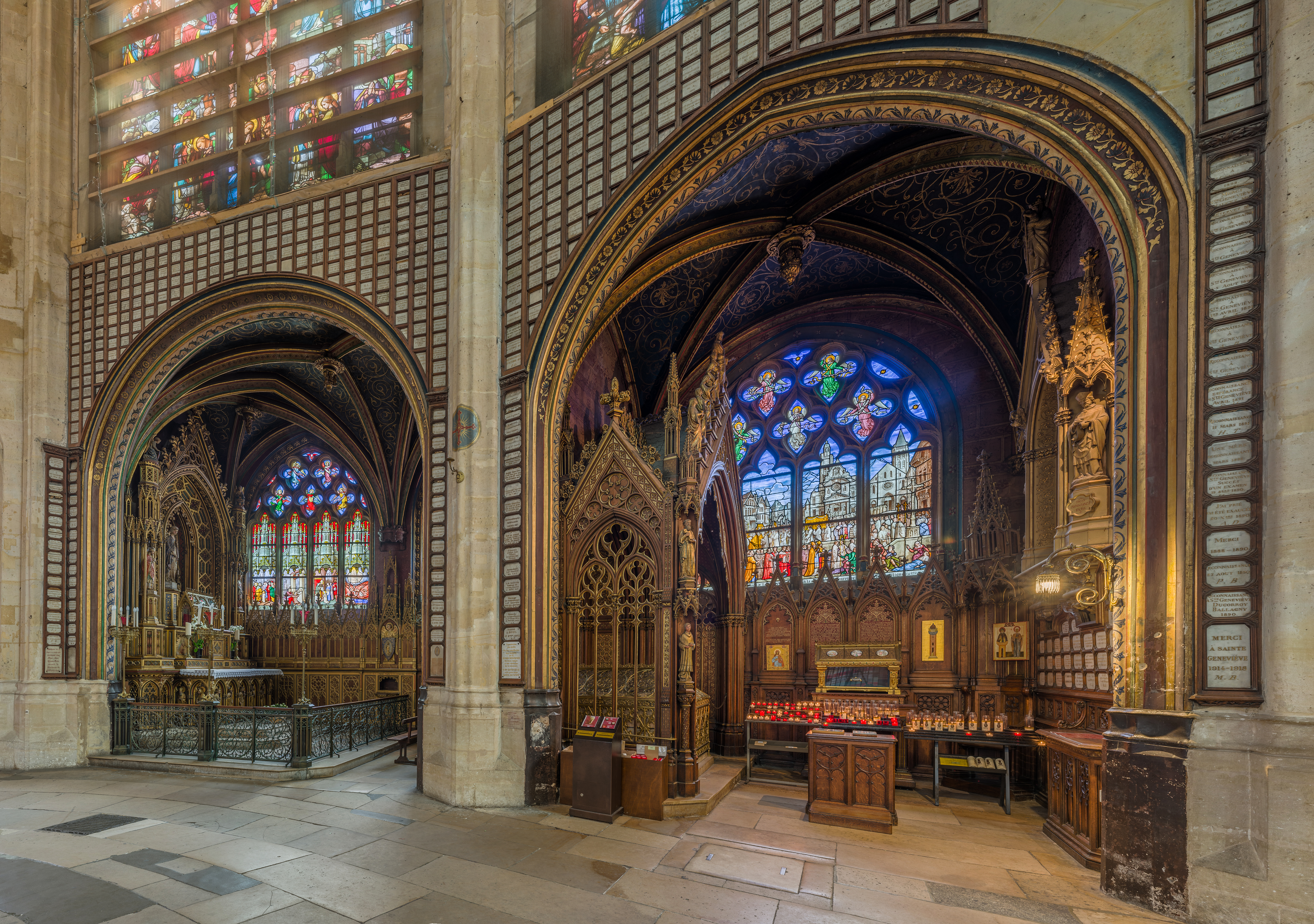 The side chapels on the southern transept of of St-Etienne-du-Mont in Paris, France.